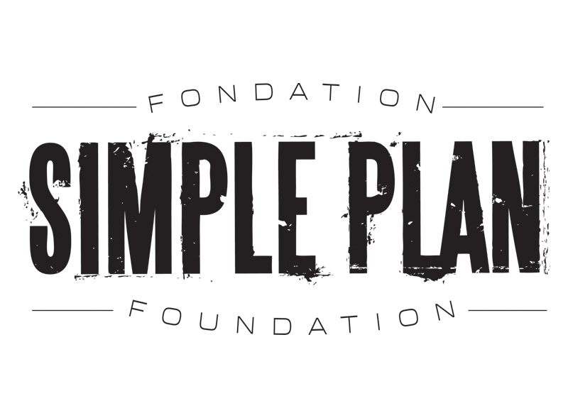 Logo of Simple Plan Foundation